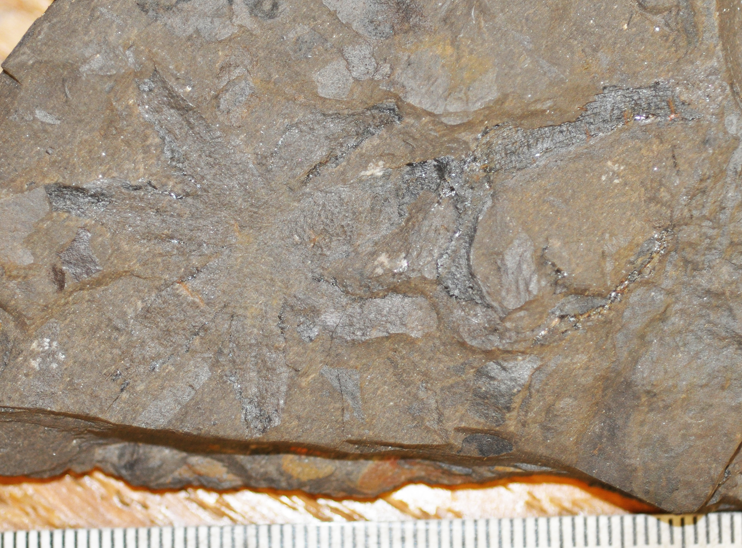 Cupule of an extinct seed fern